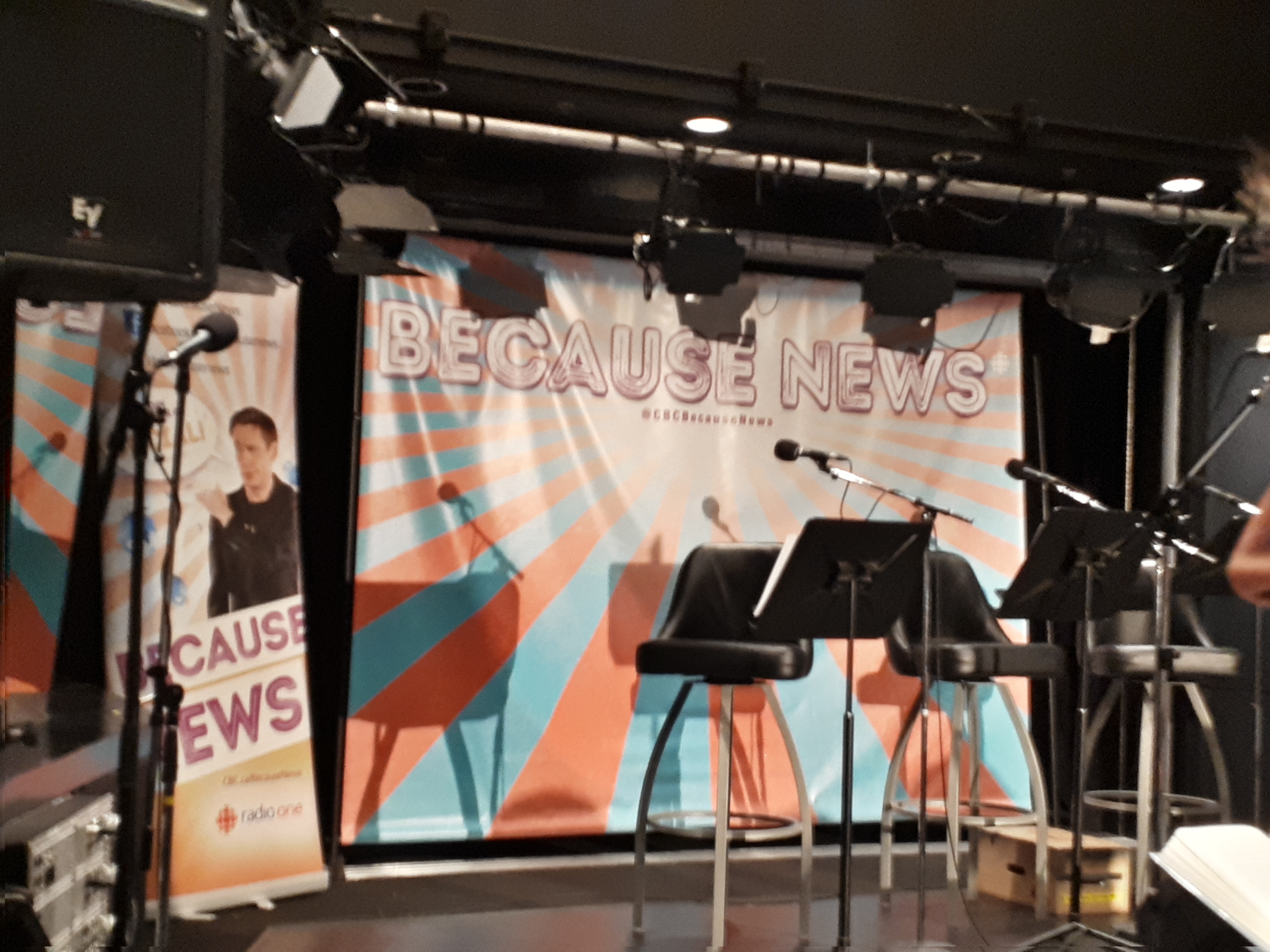 Taken by the uploader before a recent taping of the program, at the CBC building in Toronto.